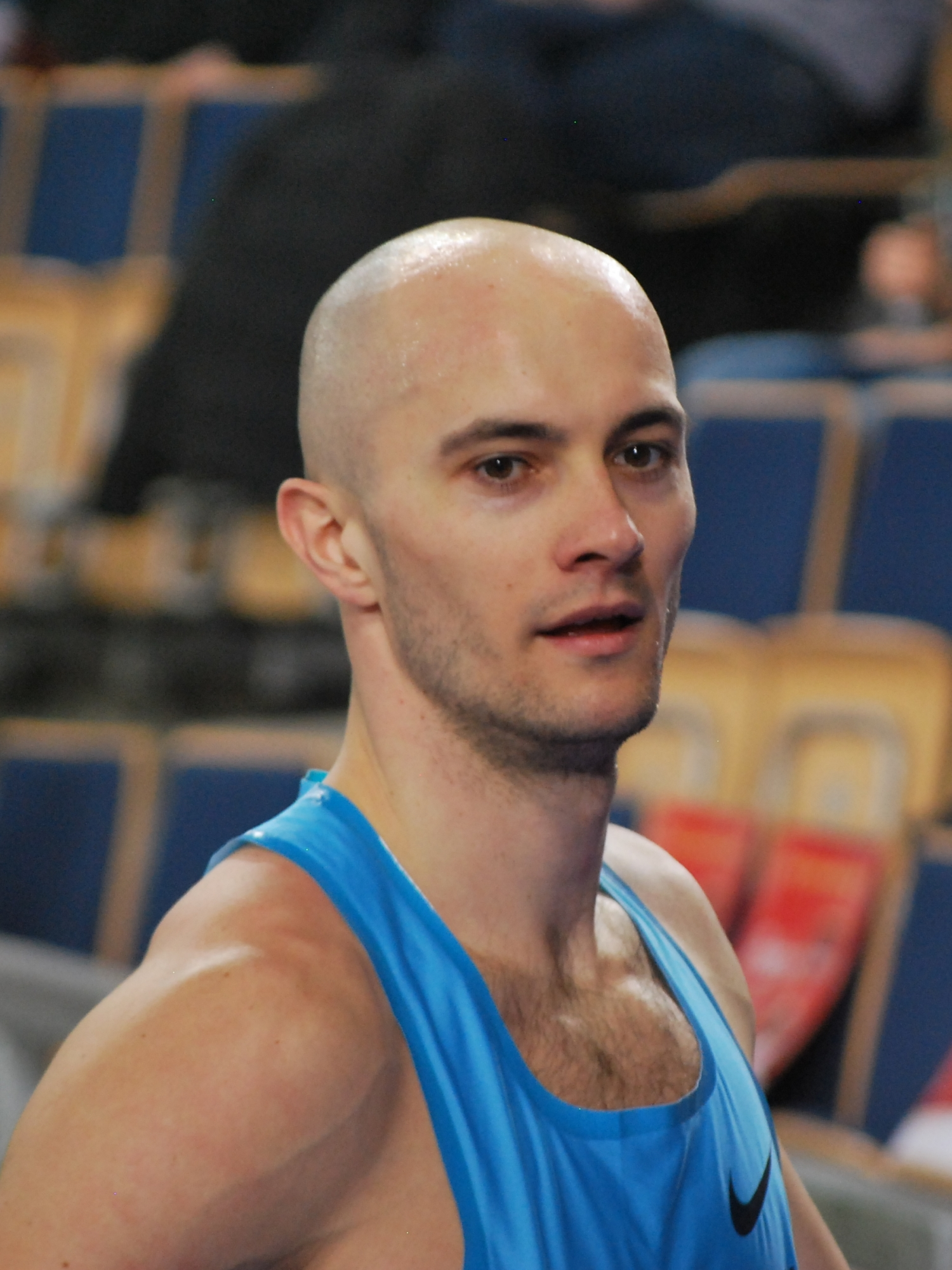 Pedros Cup 2015 Łódź, Artur Noga, hurdler from Poland